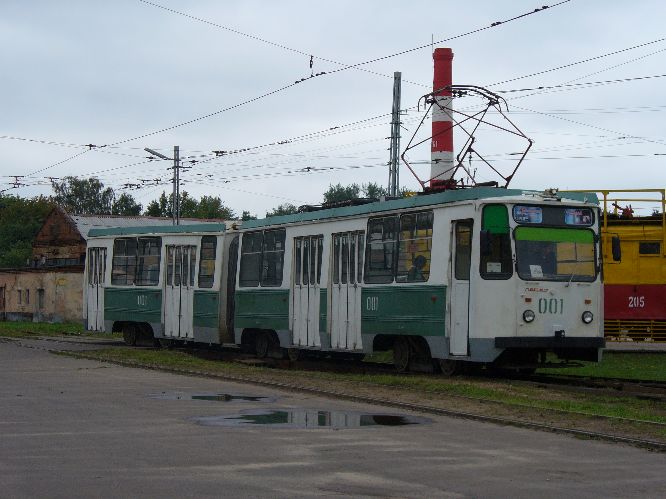 Tramcar LVS-97K (71-14701). Kolomna.